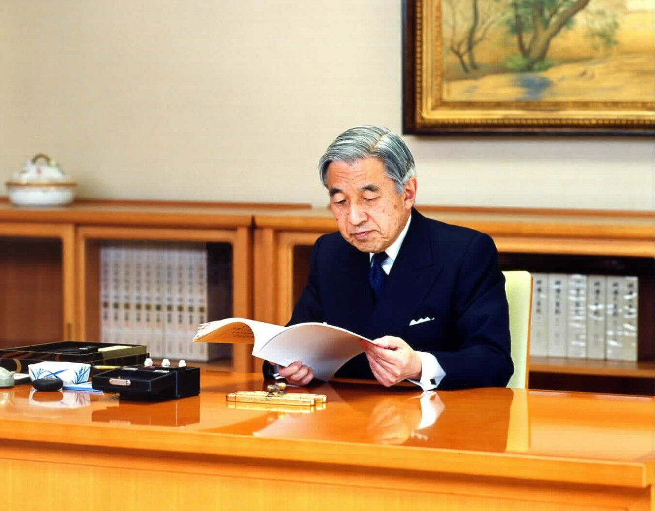 Emperor Akihito performed official duties at the Imperial Palace in Chiyoda Ward, Tōkyō Metropolis on February, 2003.